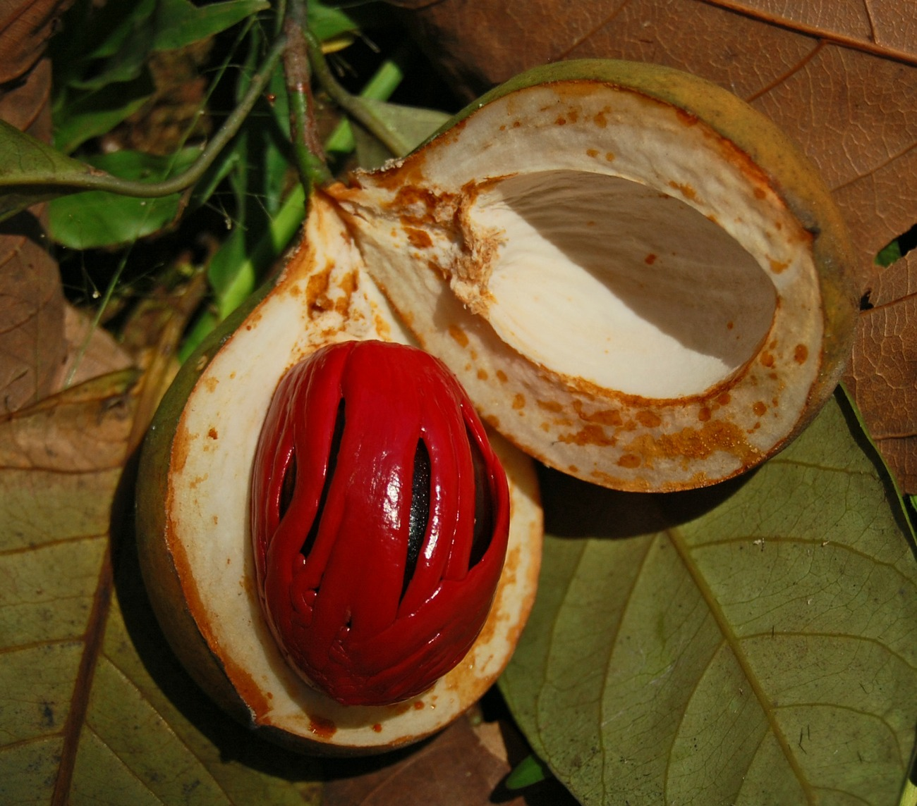 Myristica fragrans, fruits. Situgede, Bogor, West Java, Indonesia